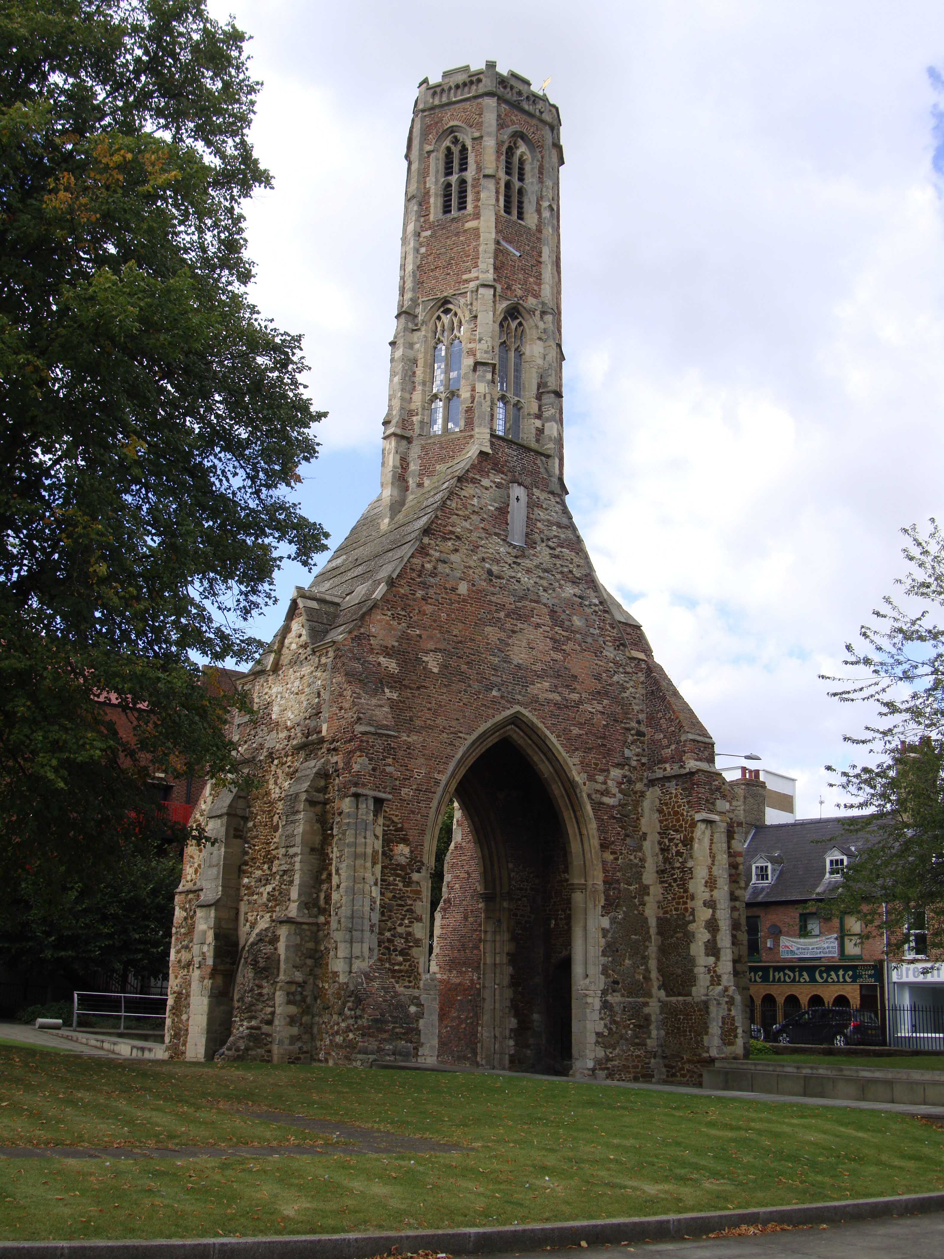 Tower of the former Franciscan Friary, King's Lynn, Norfolk, England